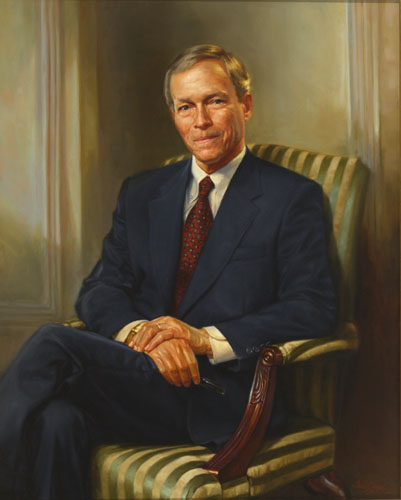 Kenneth Hood "Buddy" Mackay, Jr. (1933–), Forty-second governor of Florida, December 12, 1998 to January 5, 1999. Official Portrait, Oil on canvas, Edward Jonas, 2001 Oil on canvas, Edward Jonas, 2001.